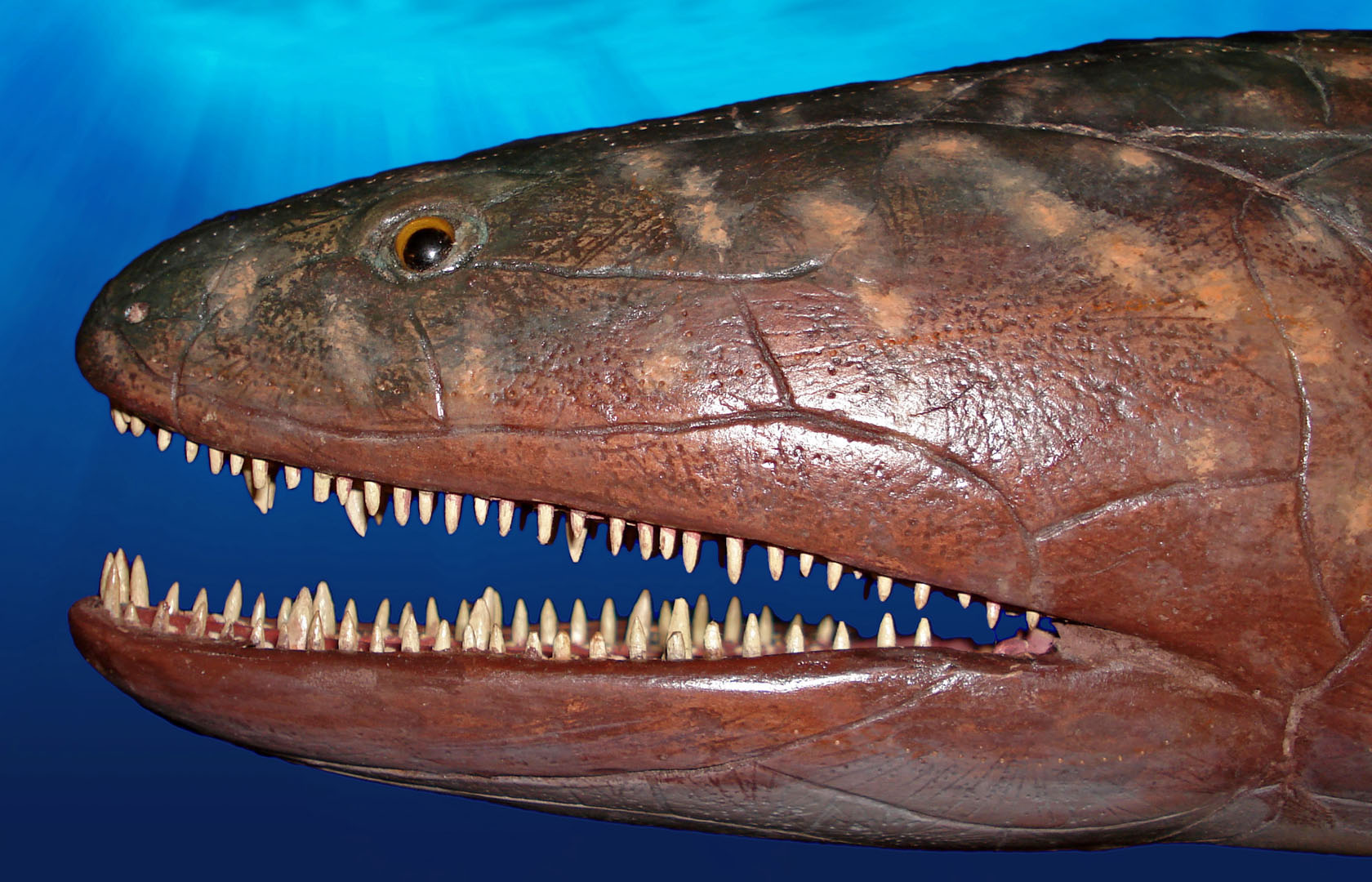 Head of Eusthenopteron (model at State Museum of Natural History Stuttgart, Germany). The most posterior portions of the head (gill cover) are off the right margin of the image.